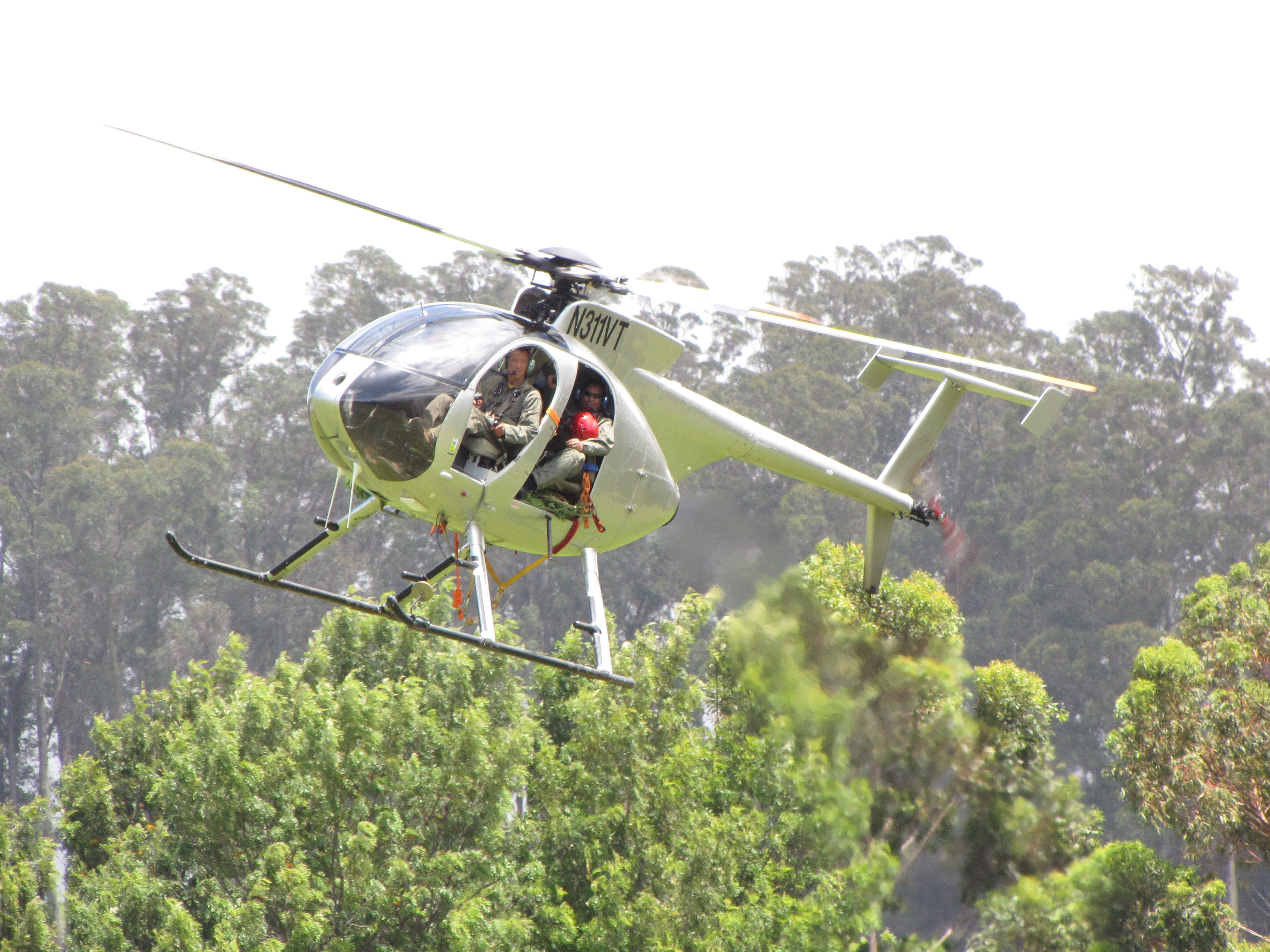 Eucalyptus sp. (Eucalyptus) Habitat and helicopter in flight at Hawea Pl Olinda, Maui, Hawaii. June 27, 2012 #120627-7684 Image Use Policy